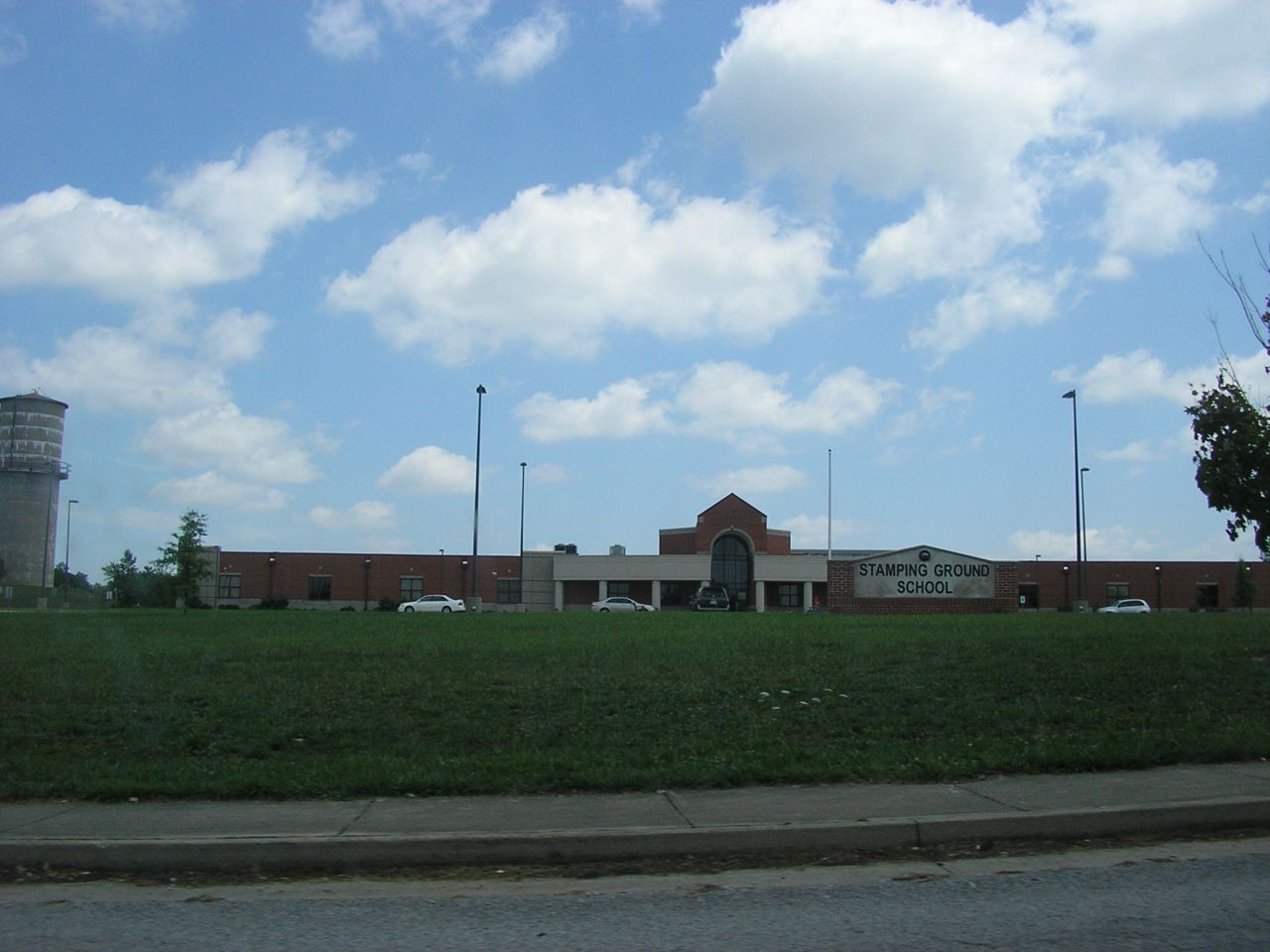 Stamping Ground School in Kentucky